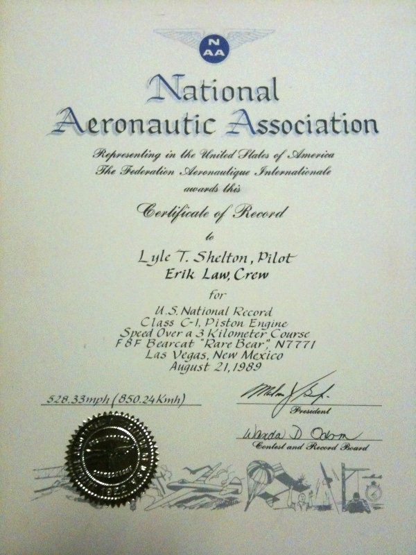 Certificate of Record from National Aeronautic Association. US National Record, Class C1 Piston Engine Speed over a 3km Course.